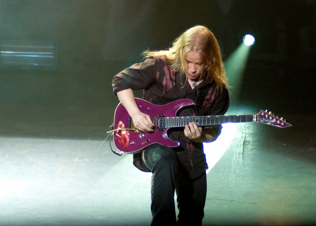 Emppu Vuorinen playing electric guitar as a Nightwish concert at The Palais in Melbourne, Australia, in January 2008.